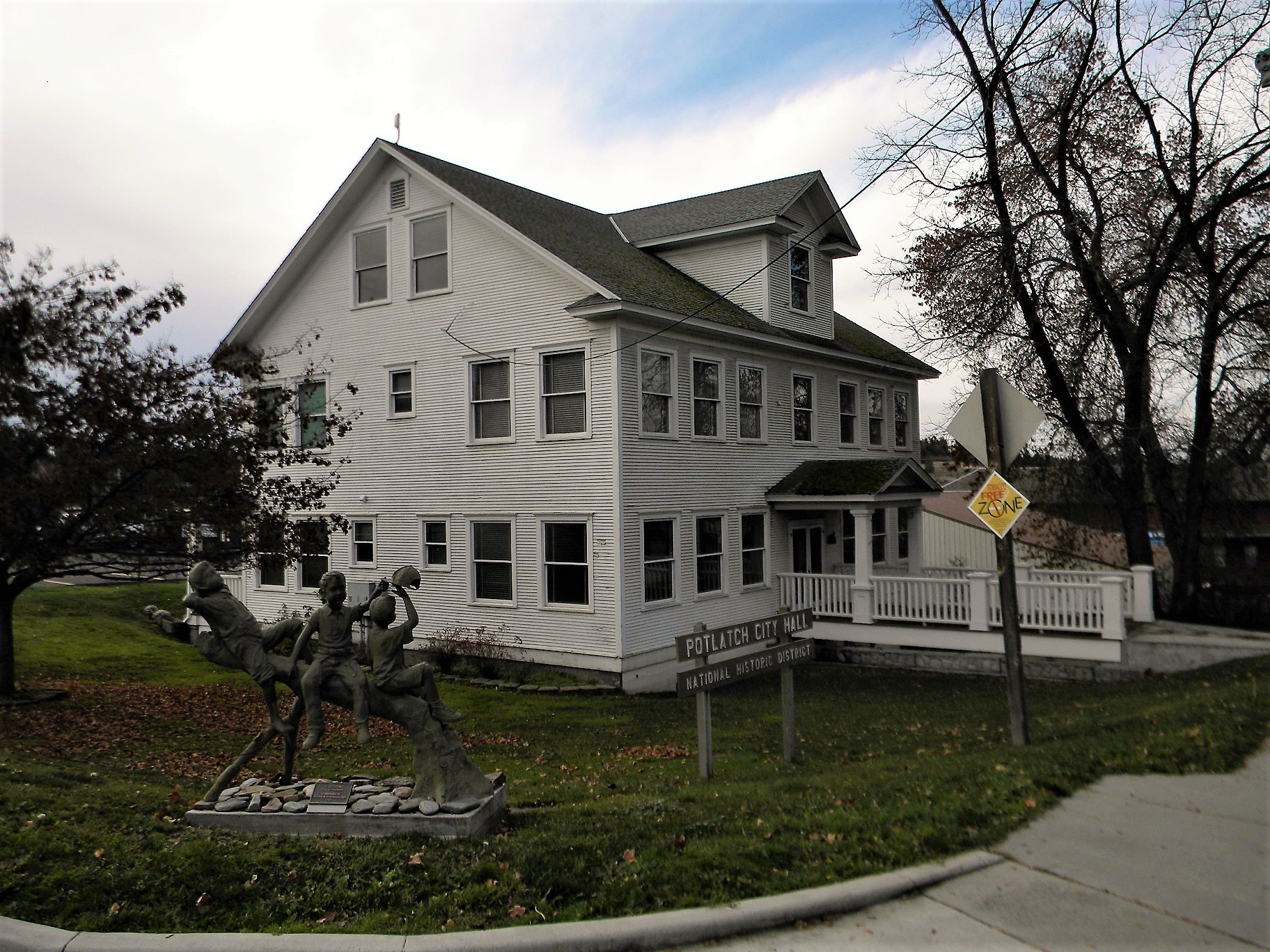 Commercial Historic District Buildings are across Sixth Street from each other.